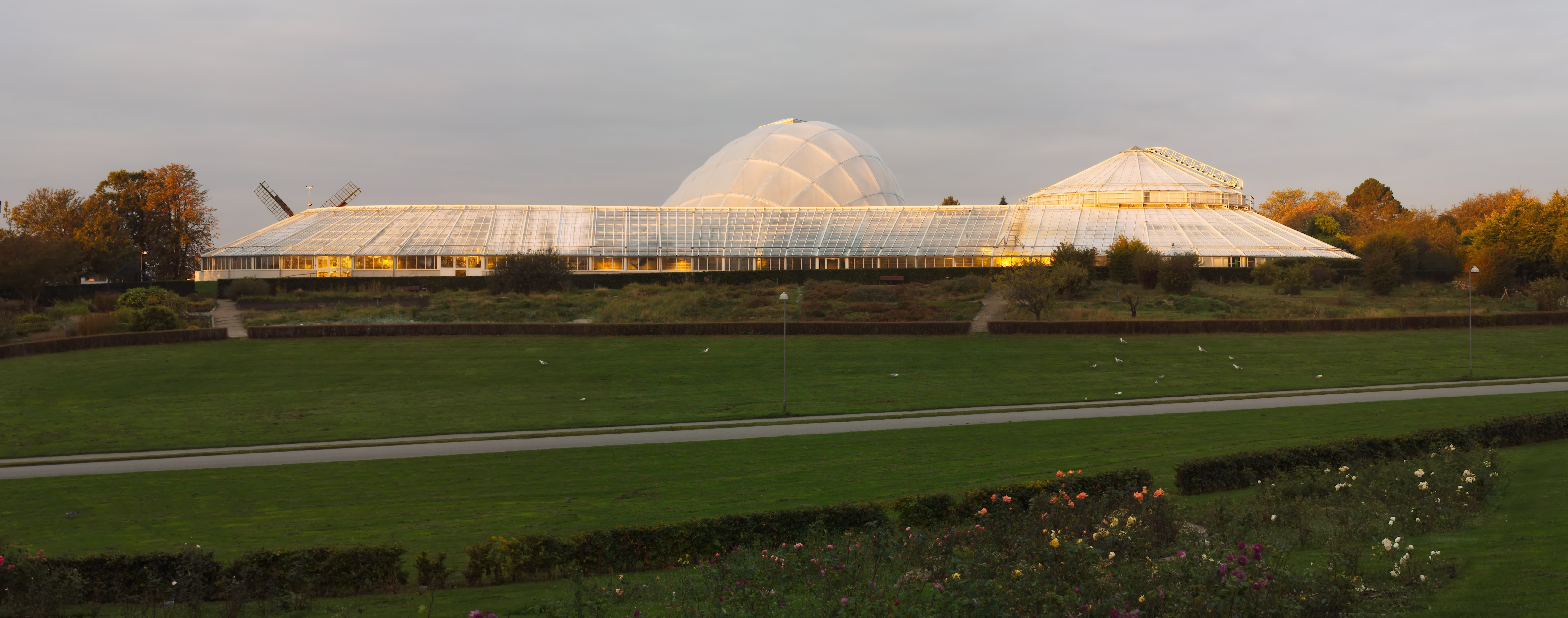 The greenhouse botanical garden Aarhus in the morning at sunrise